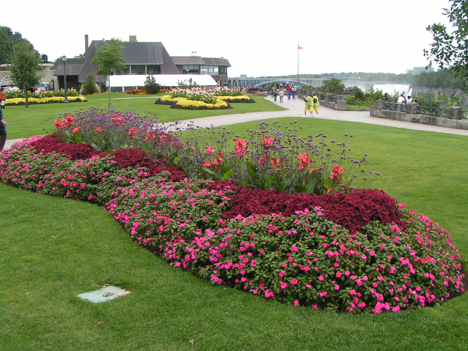 Description: City Niagara Falls, Ontario, Canada - near Niagara Falls Source: Picture taken by Jan Zatko, September the 17th, 2004